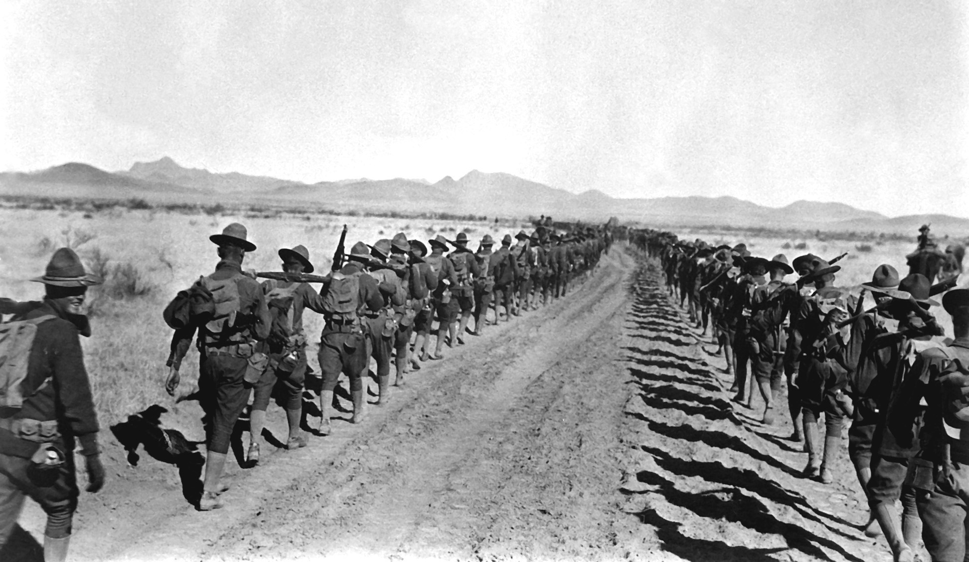 Pancho Villa Expedition. Column of 6th and 16th Infantry, en route to the States, between Corralitos Rancho and Ojo Federico, Jan 29th, 1917. Co. A, 16th Infty. in foreground. This was the longest hike of the return march, 28 miles.